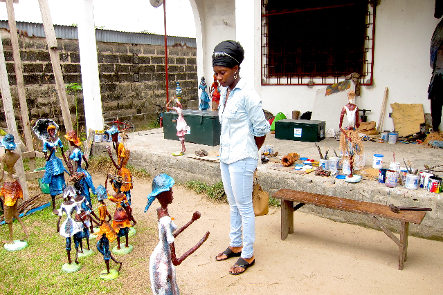 Congolese artist Rhode Bath-Schéba Makoumbou preparing an exhibition in her workshop of Brazzaville.